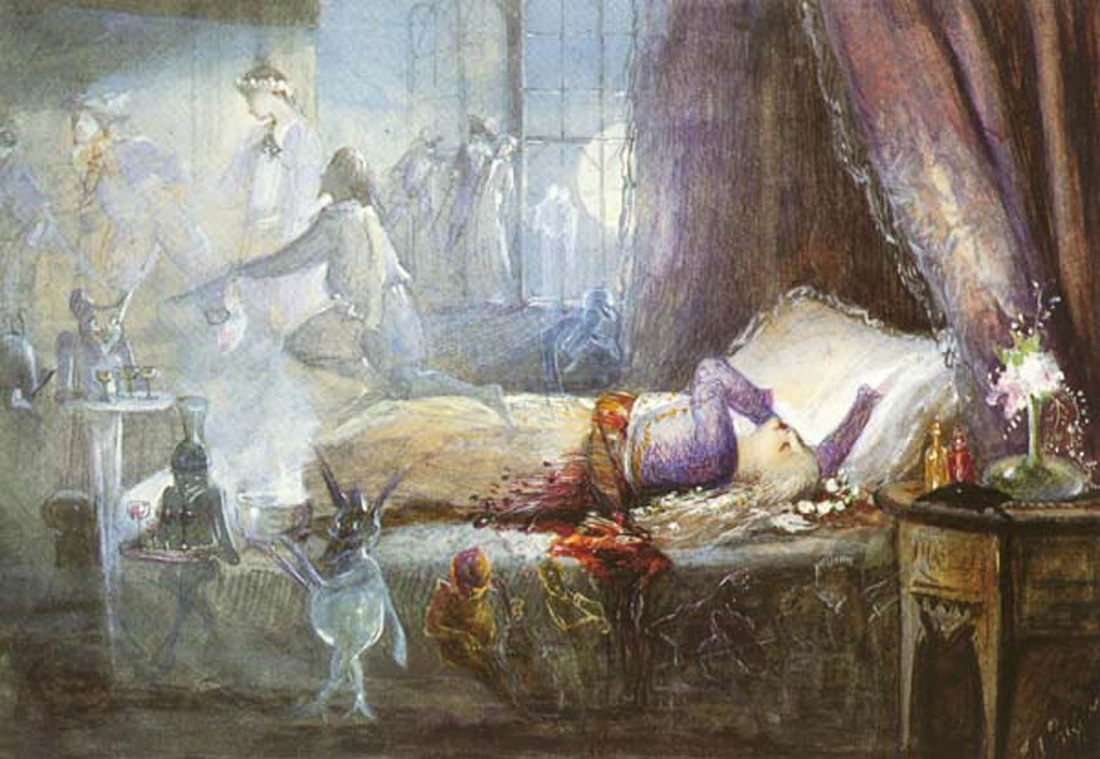 The nightmare